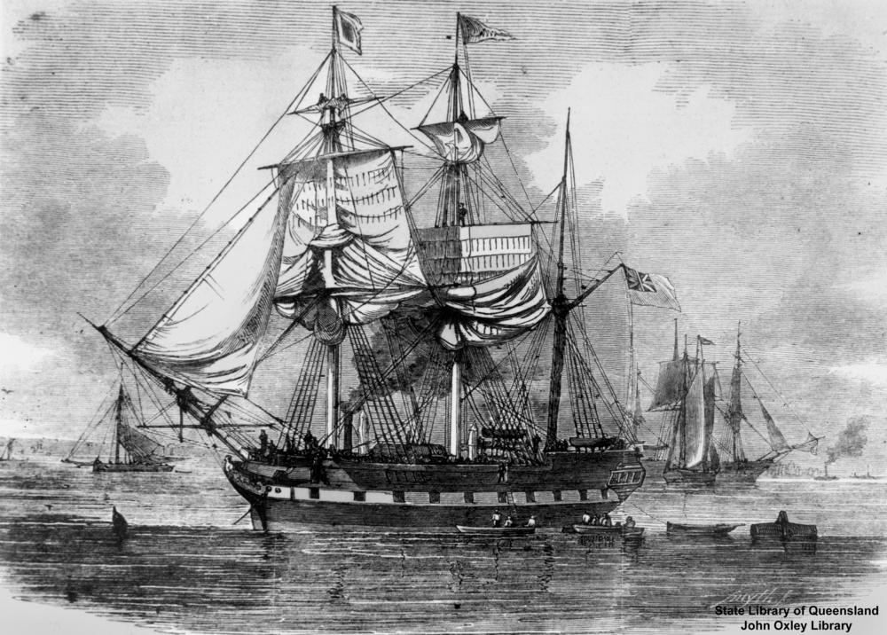 Artemisia (ship)